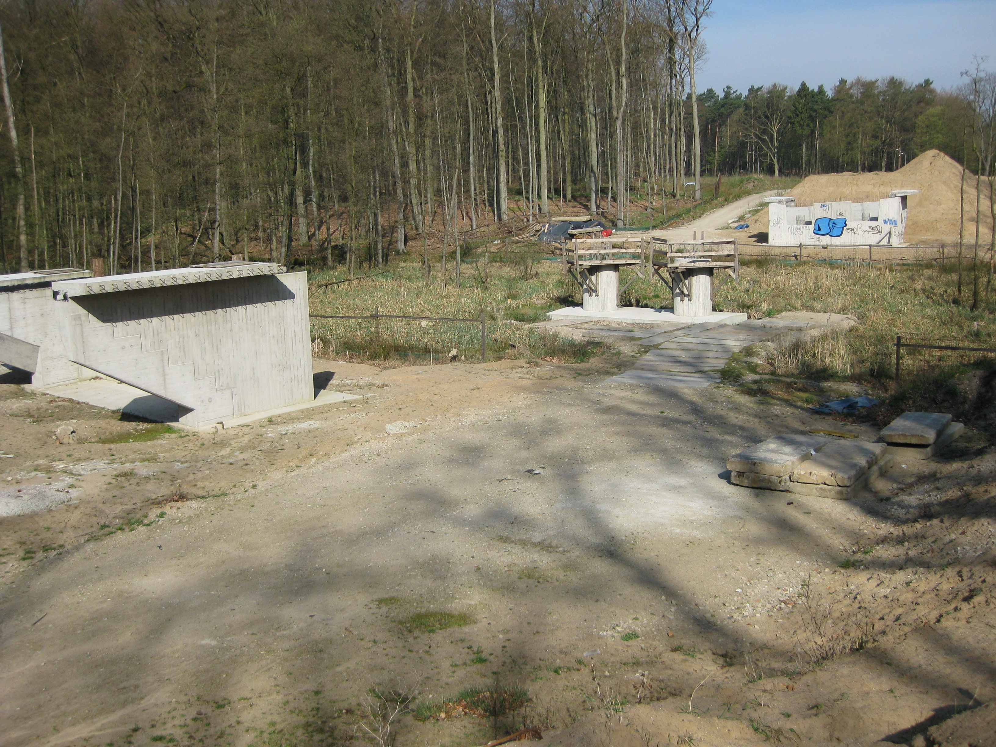 Bridge over Lauerholz bug near Schlutup. Site of future B 104 bypass.